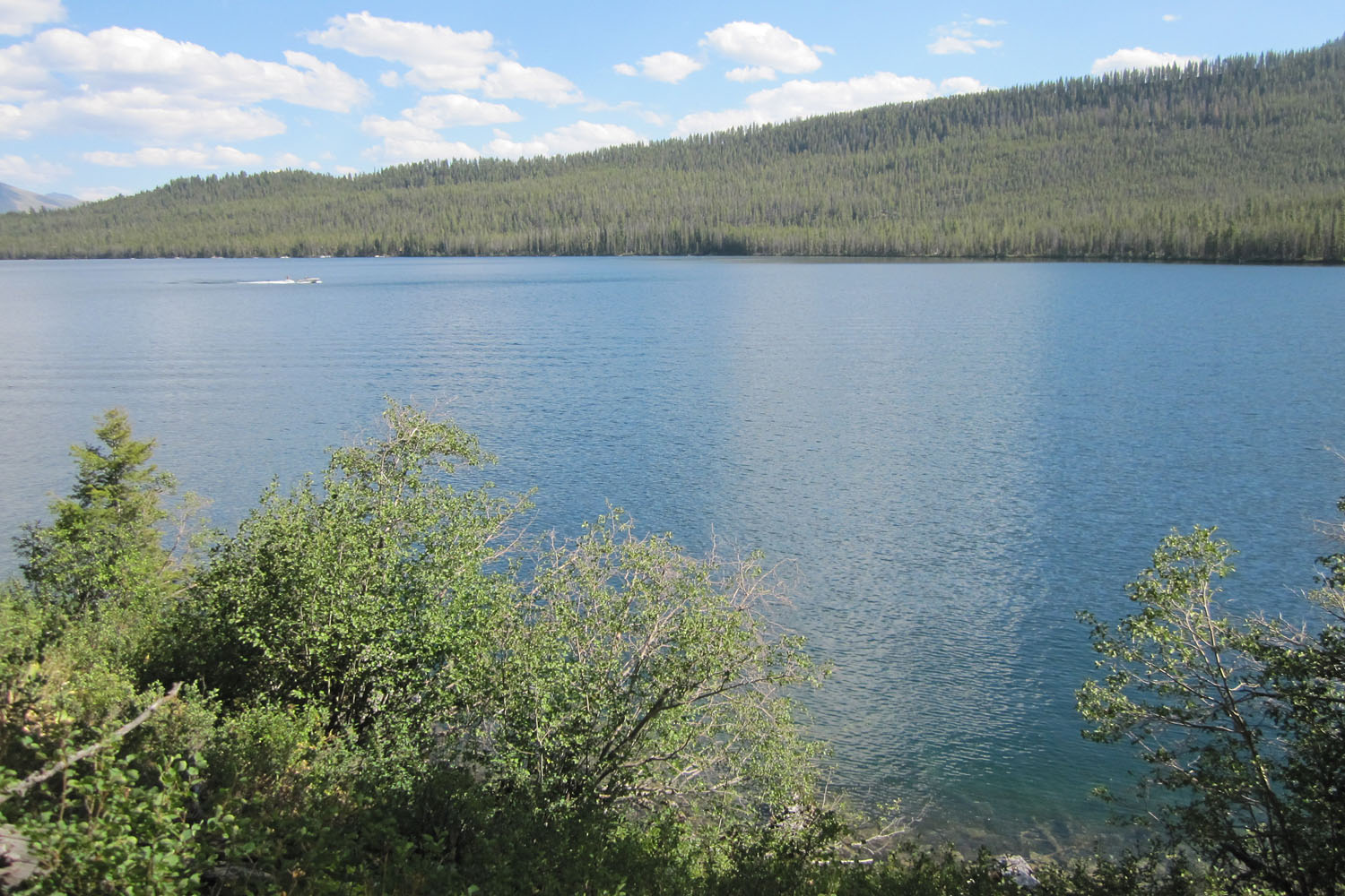 Pettit Lake in the Sawtooth National Recreation Aera, Idaho